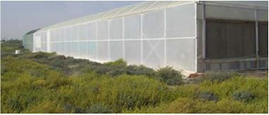 Vegetation has spontaneosly grown around the Greenhouse due to excess humidity released by the Greenhouse